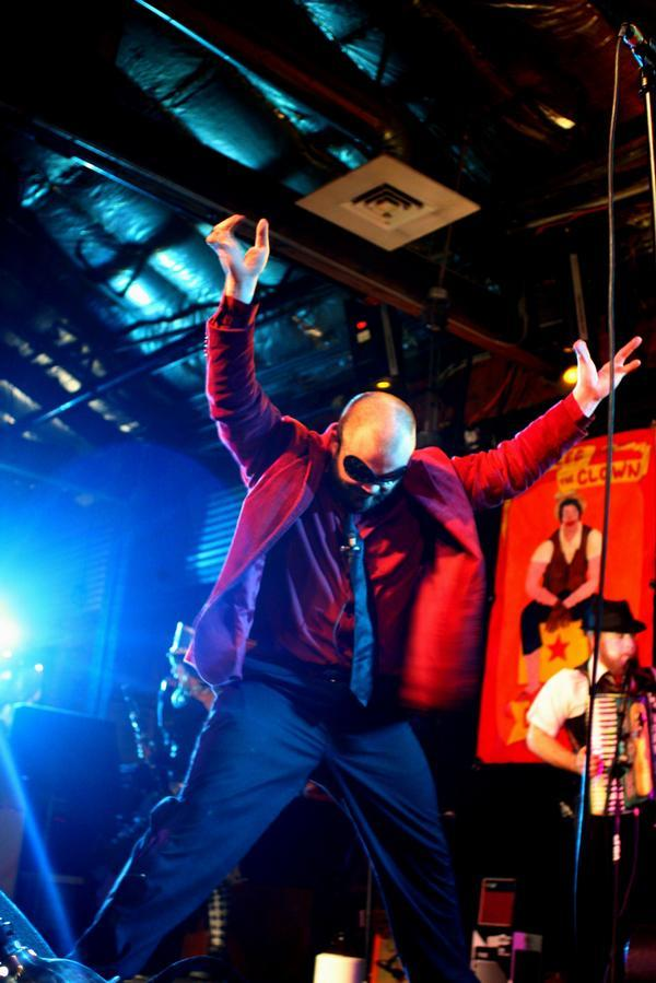 Black Scorpion on stage.